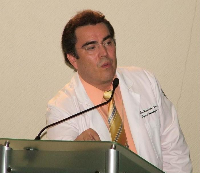 El Dr. Humberto Lara Villegas, quien desarrolló la creación de un gel compuesto con nano particulares de plata que evita la entrada del VIH al sistema inmunológico.